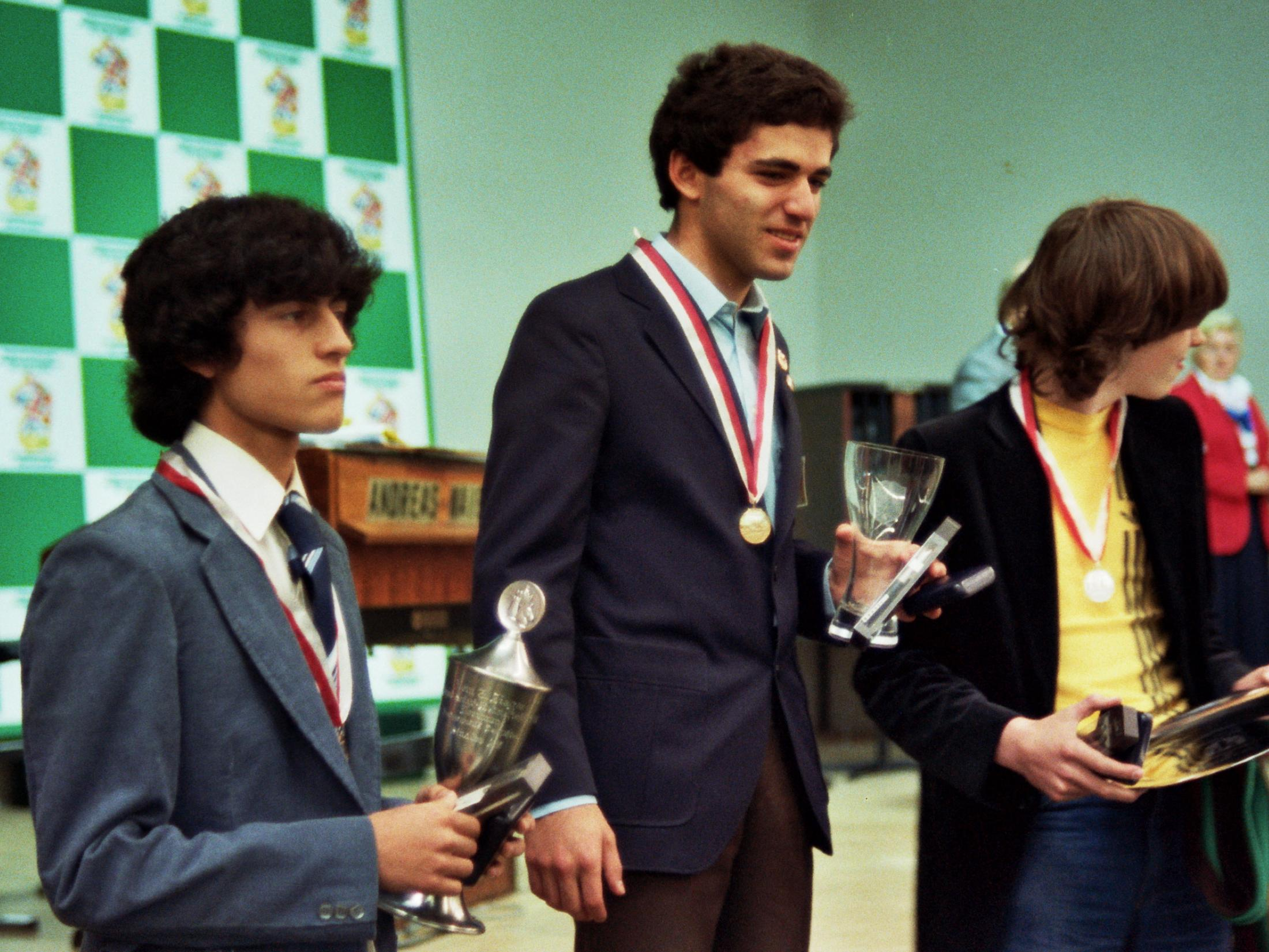 Ivan Morovic, Garry Kasparov and Nigel Short, Junior Chess World Championship 1980 at Dortmund, Photographer Gerhard Hund.